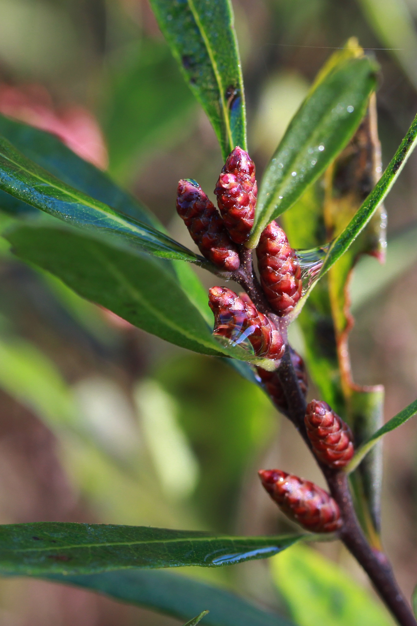 Male catkins (and foliage) of Myrica gale.